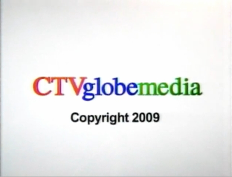 A screenshot of the final image broadcast on CKX-TV before fading to black.